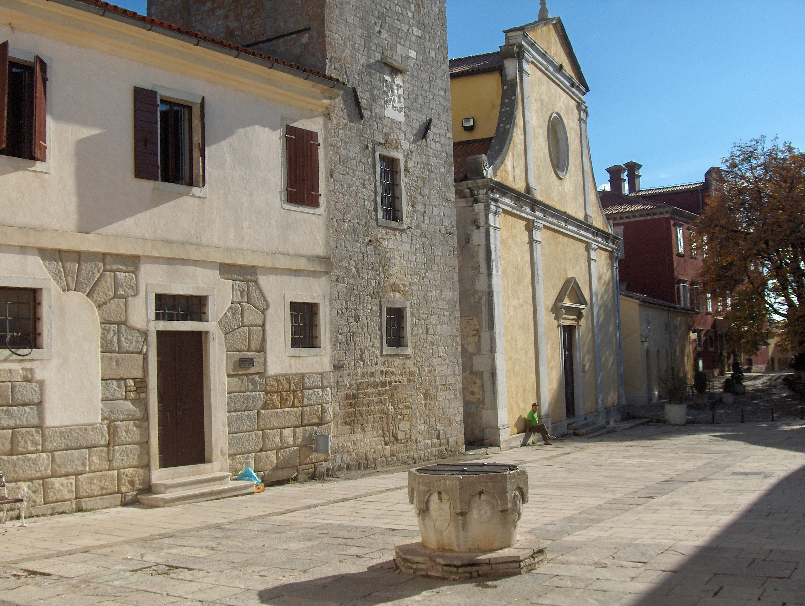 Church of St. Stephen and fountain, Motovun, Croatia